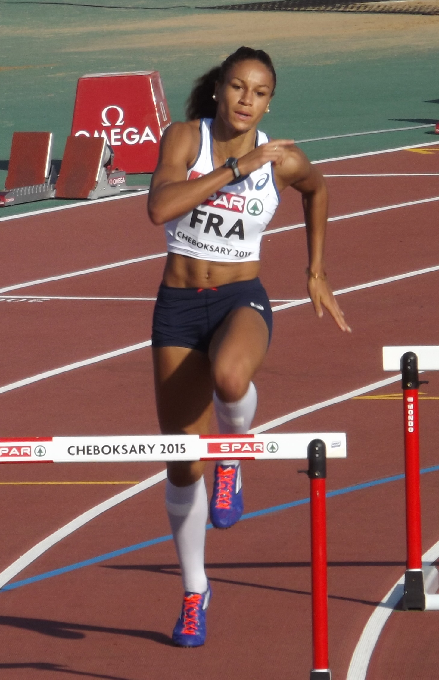 Aurélie Chaboudez competing at the 2015 European Team Championships